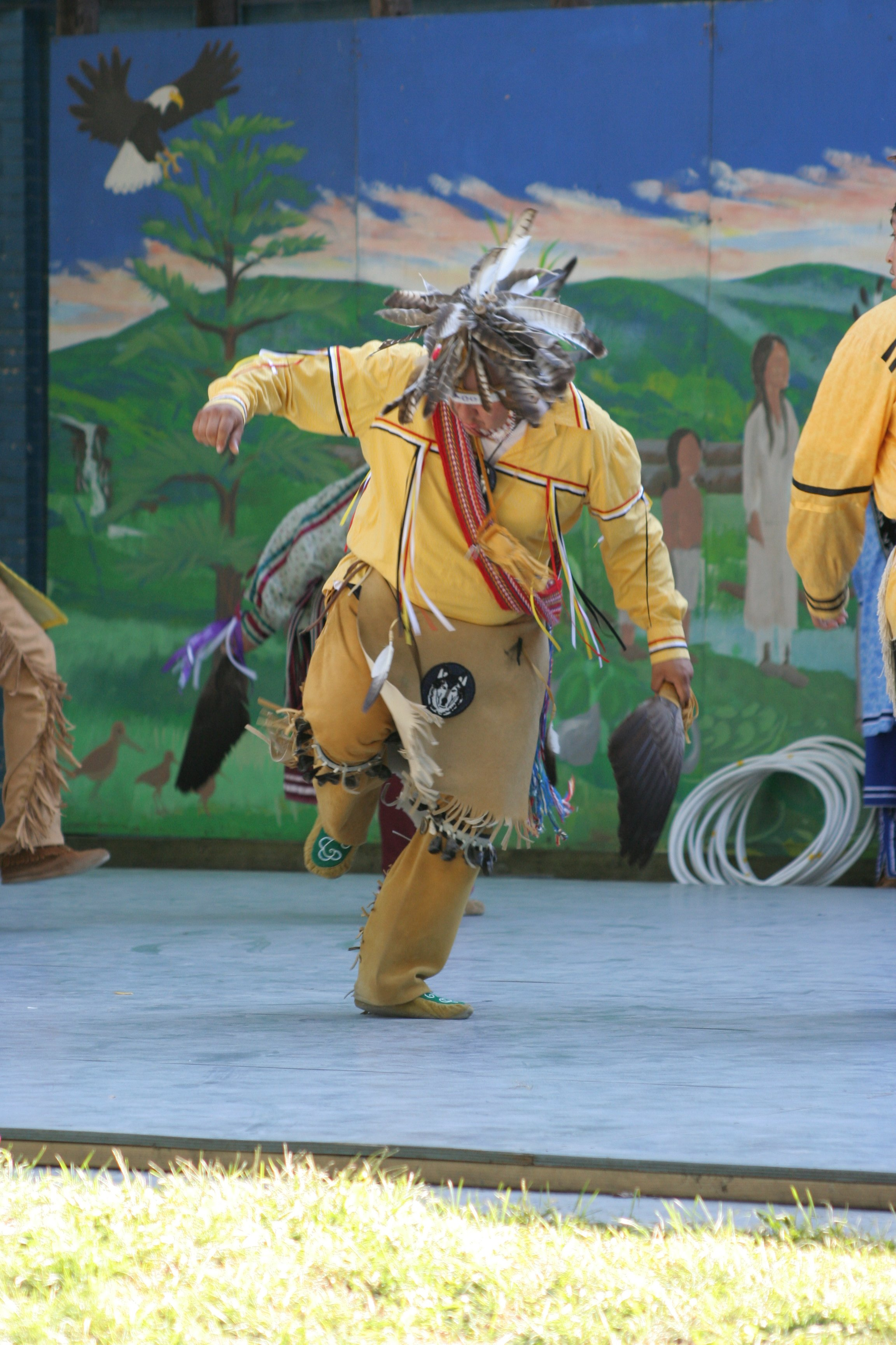 Traditional dance performance in the Iroquois Indian Village at the 2008 New York State Fair.